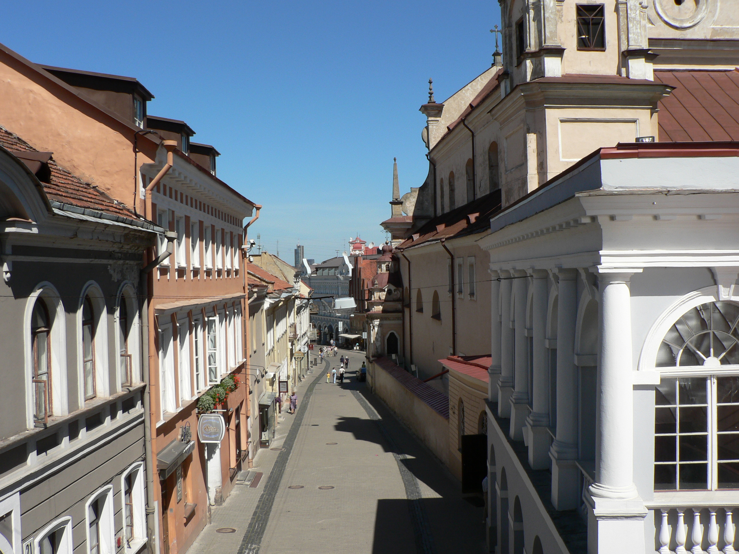 Ausros Vartu street, Vilnius, Lithuania